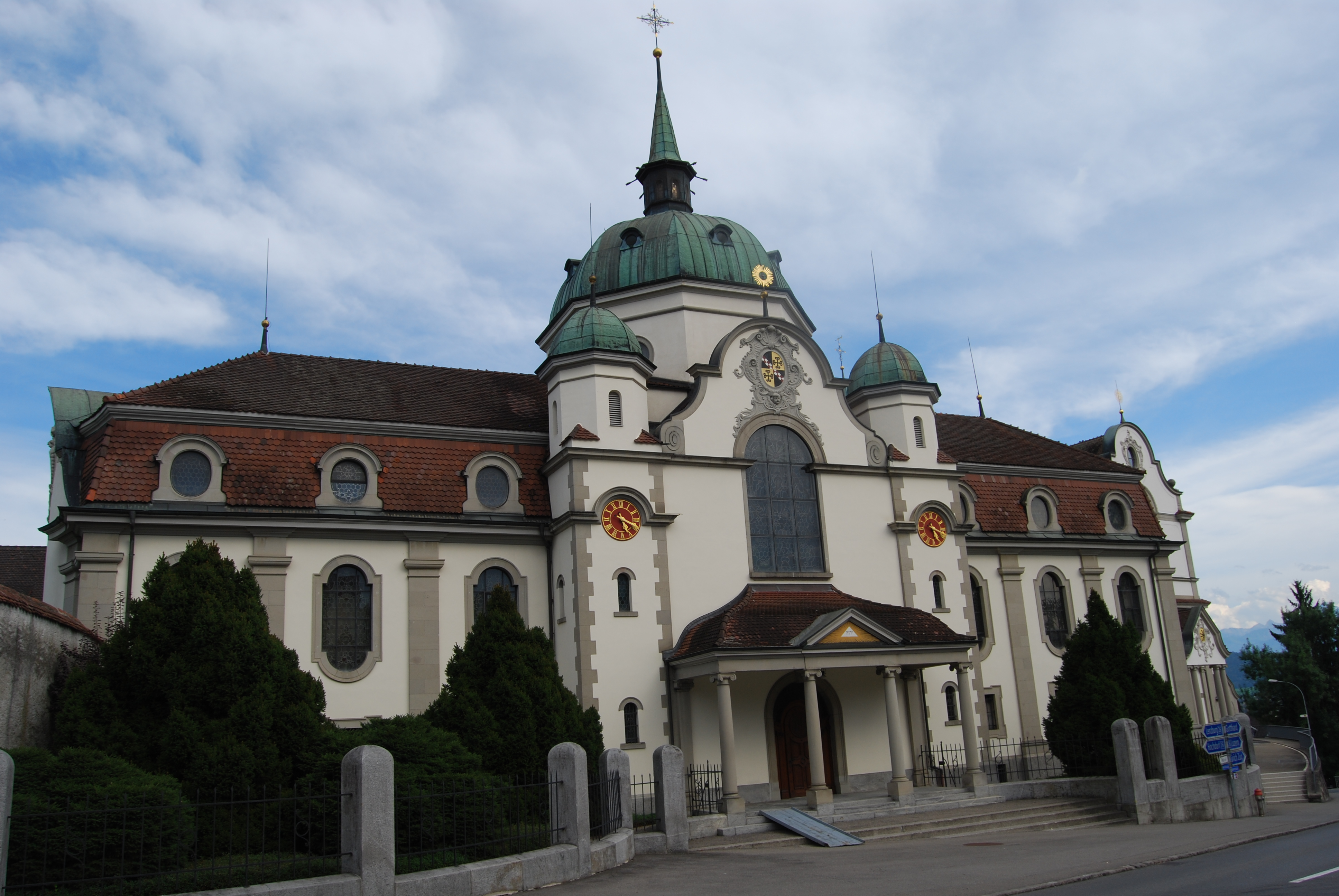 Abbey church Eschenbach, canton of Lucerne, Switzerland